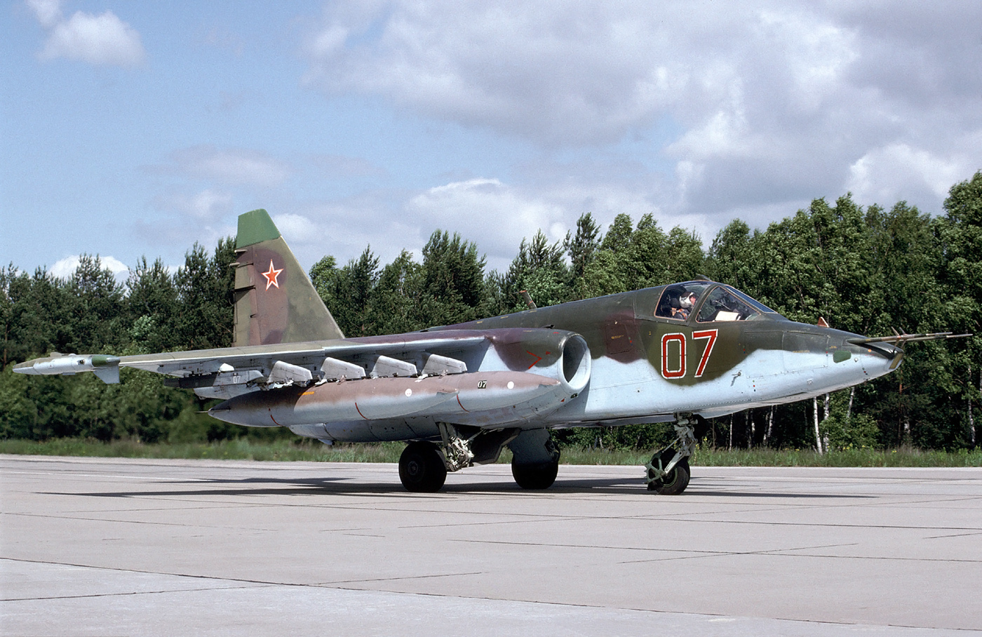 15 June 1993. Some 30 Su-25s of the 368th OShAP assault regiment flew from Demmin to Gross Dölln on this day. The next day the aircraft flew to Budennovsk in Russia, not far north of Georgia. The regiment is still there. All Frogfoots had the same camouflage: like they had just left the factory. Unlike the Sukhois of the sister-regiment at Brandis, which all looked worn out. The Su-25BM was the target-towing variant.